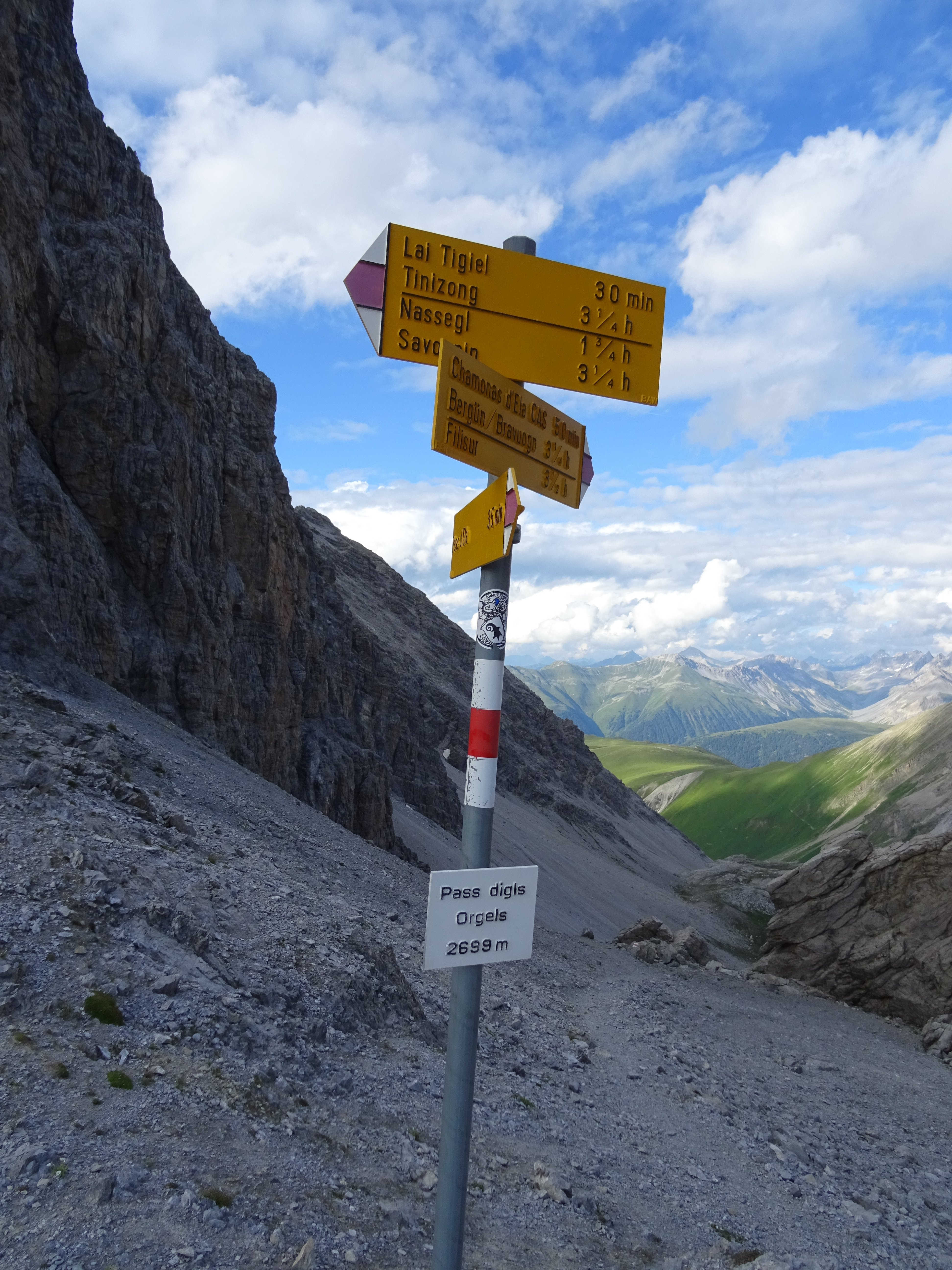 Fingerpost on Pass digls Orgels (Surses/Filisur, Grison, Switzerland